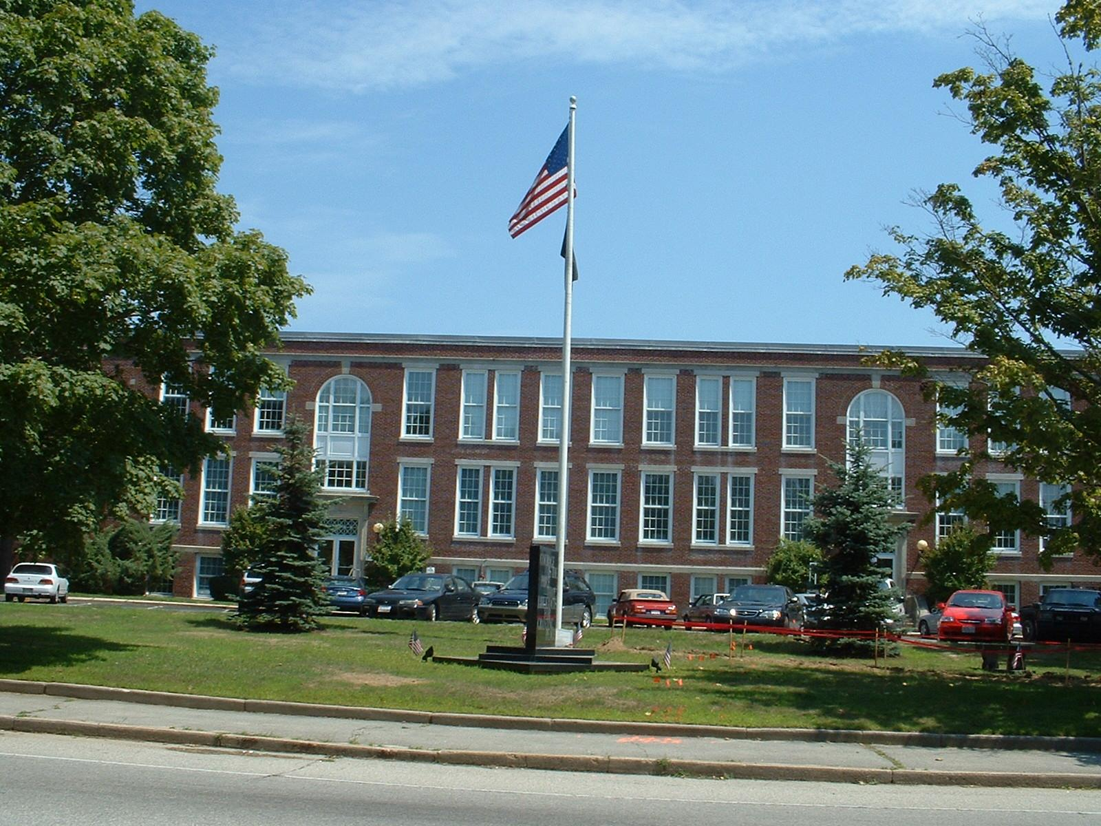 Dartmouth Town Hall, located in the former Poole (or High) School. The town hall has been in the building since the early 1990s.